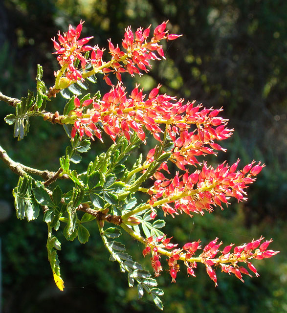 Fruit of the Tineo tree, native to southern Chile and Argentina. UC Berkeley Botanical Gardens. In context at